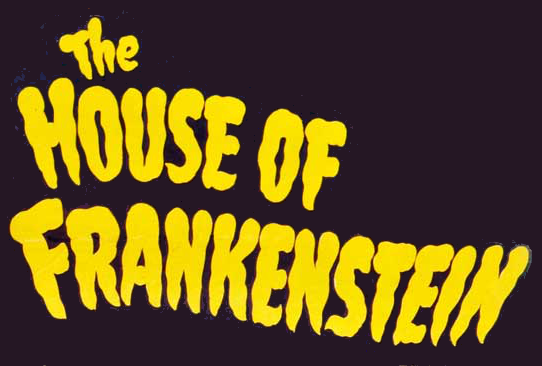 Official logo of the movie House of Frankenstein